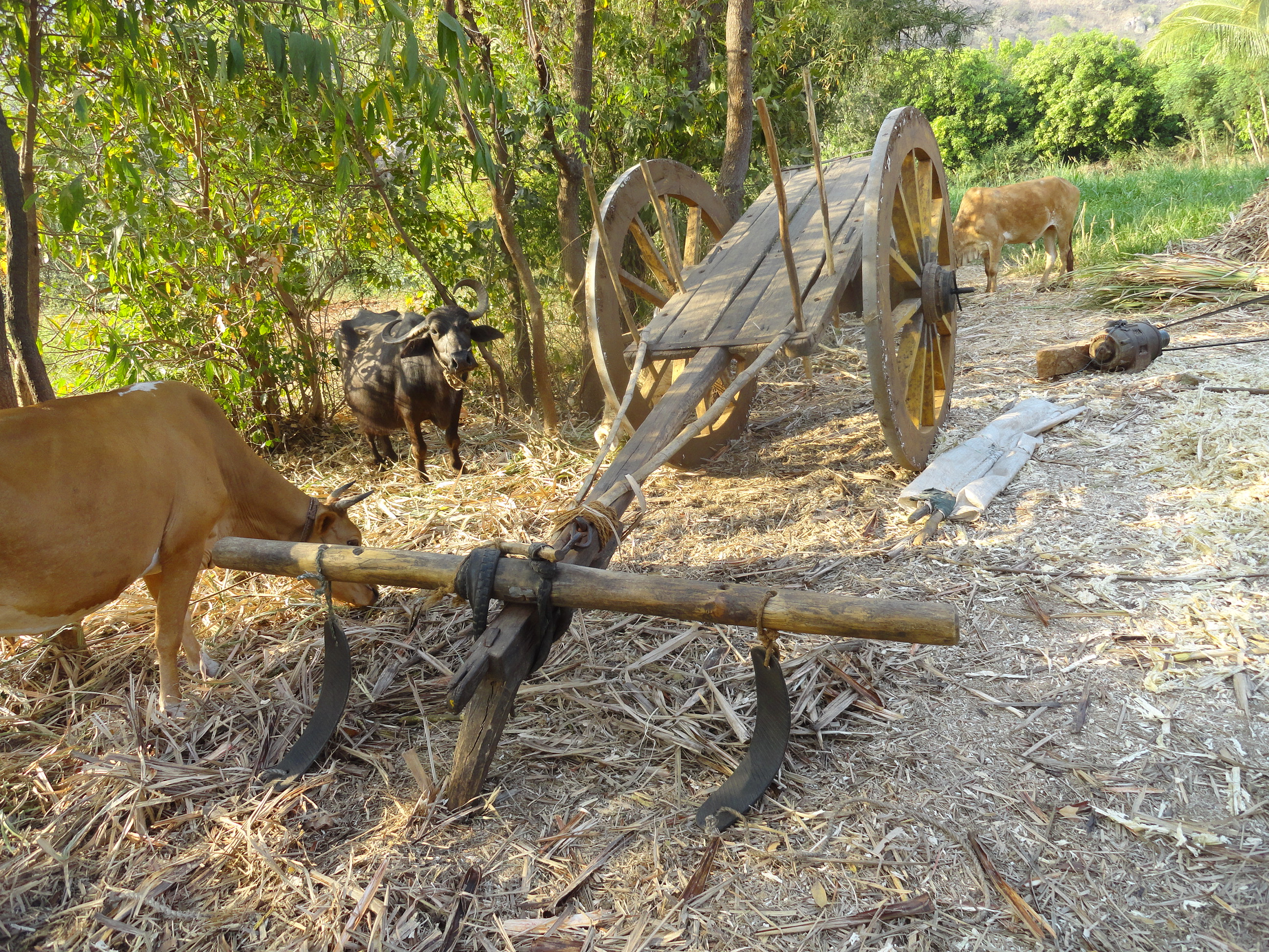 a bullock cart in the field: picture taken near Tirupati.